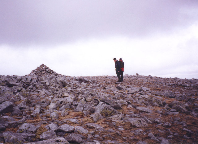 the flat, stony summit plateau of Carn Mairg. showing the summit cairn